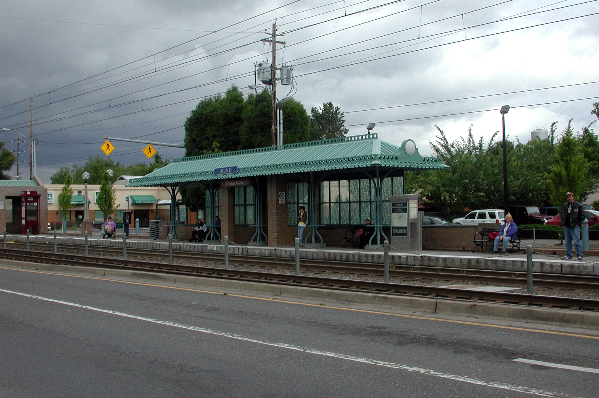 East 102nd Avenue station of the Metropolitan Area Express (MAX) light-rail system in Portland, Oregon, United States. View is to the northwest and includes only the west platform of the split-platform station.